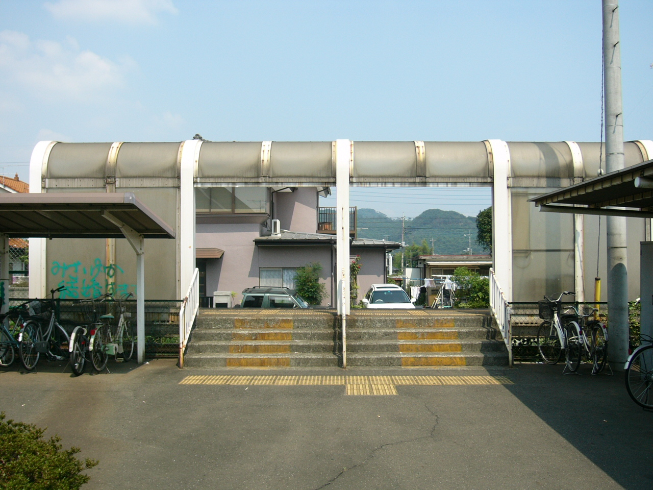 Undo-Koen Station